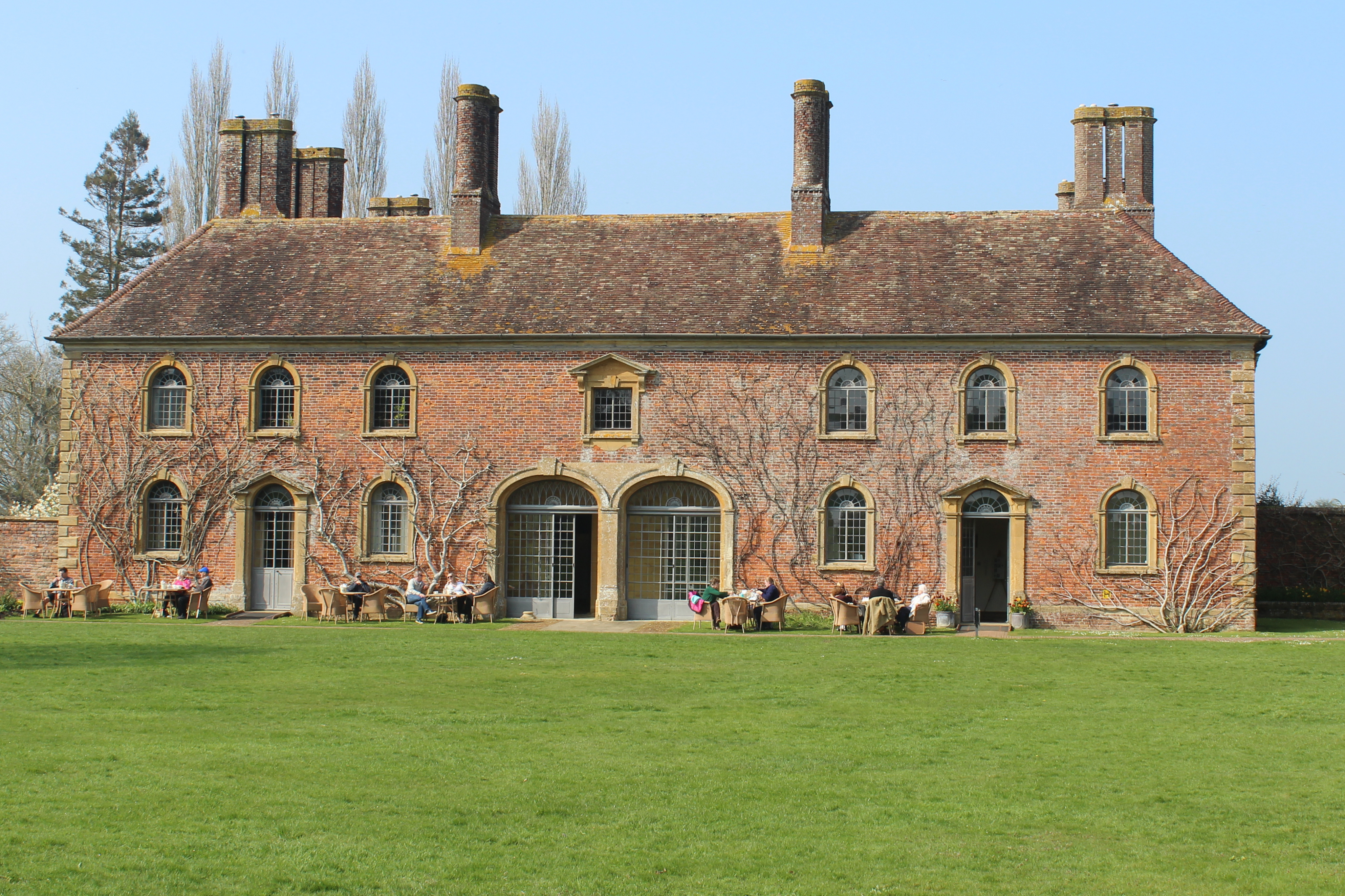 South facade of the Barrington House, a Grade II listed originally built in 1674 as stables for Barrington Court. The were embellished in 1760 and the front has been virtually unchanged since then. They were subsequently joined to the main house by means of a passageway to form a wing to the main house and the stable-yard converted to a quadrangle. The building now serves as the National Trust tearoom for Barrington Court.